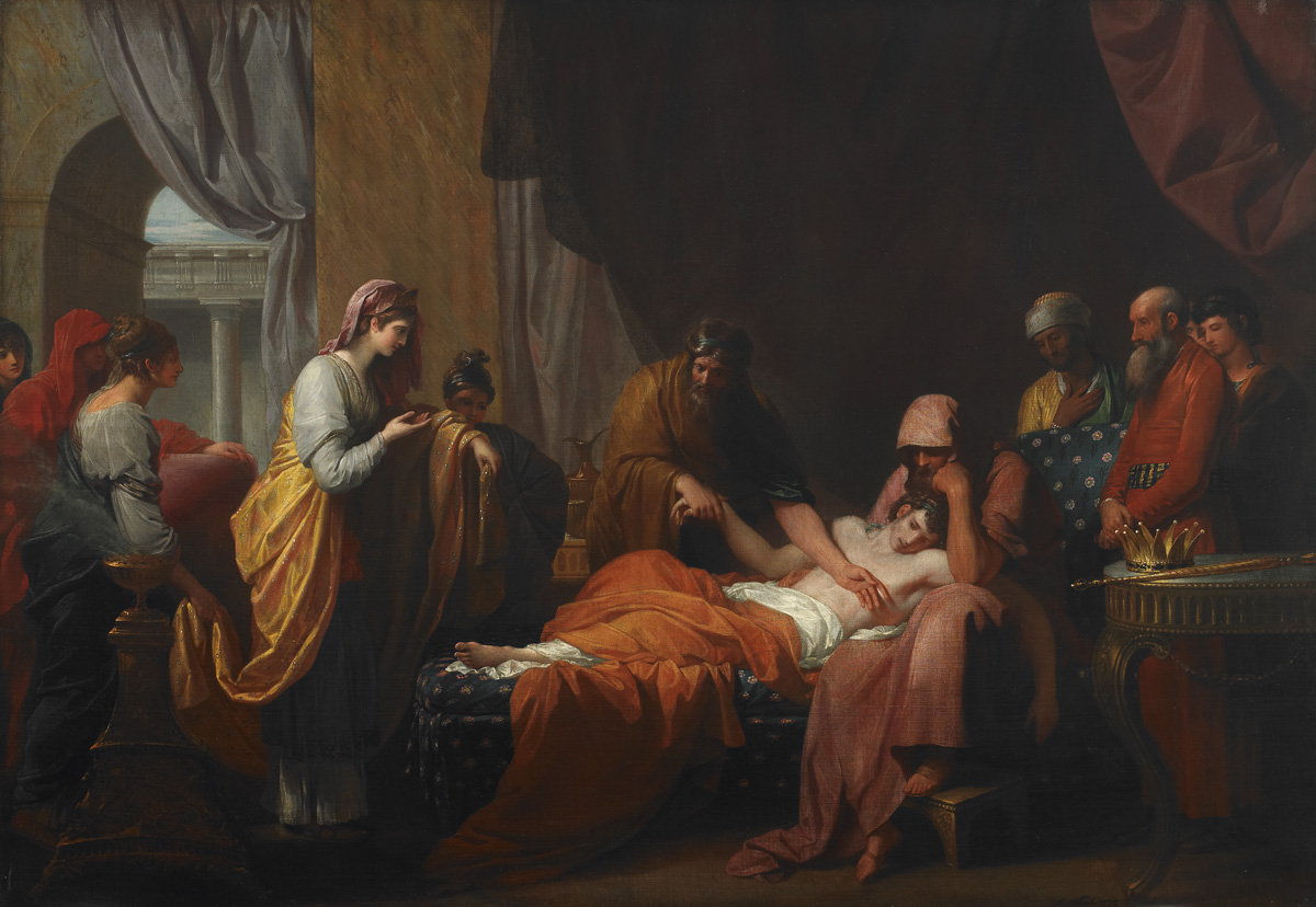 Painting of the Greek tale of Erastistratus diagnosing Antiochus with unrequited love